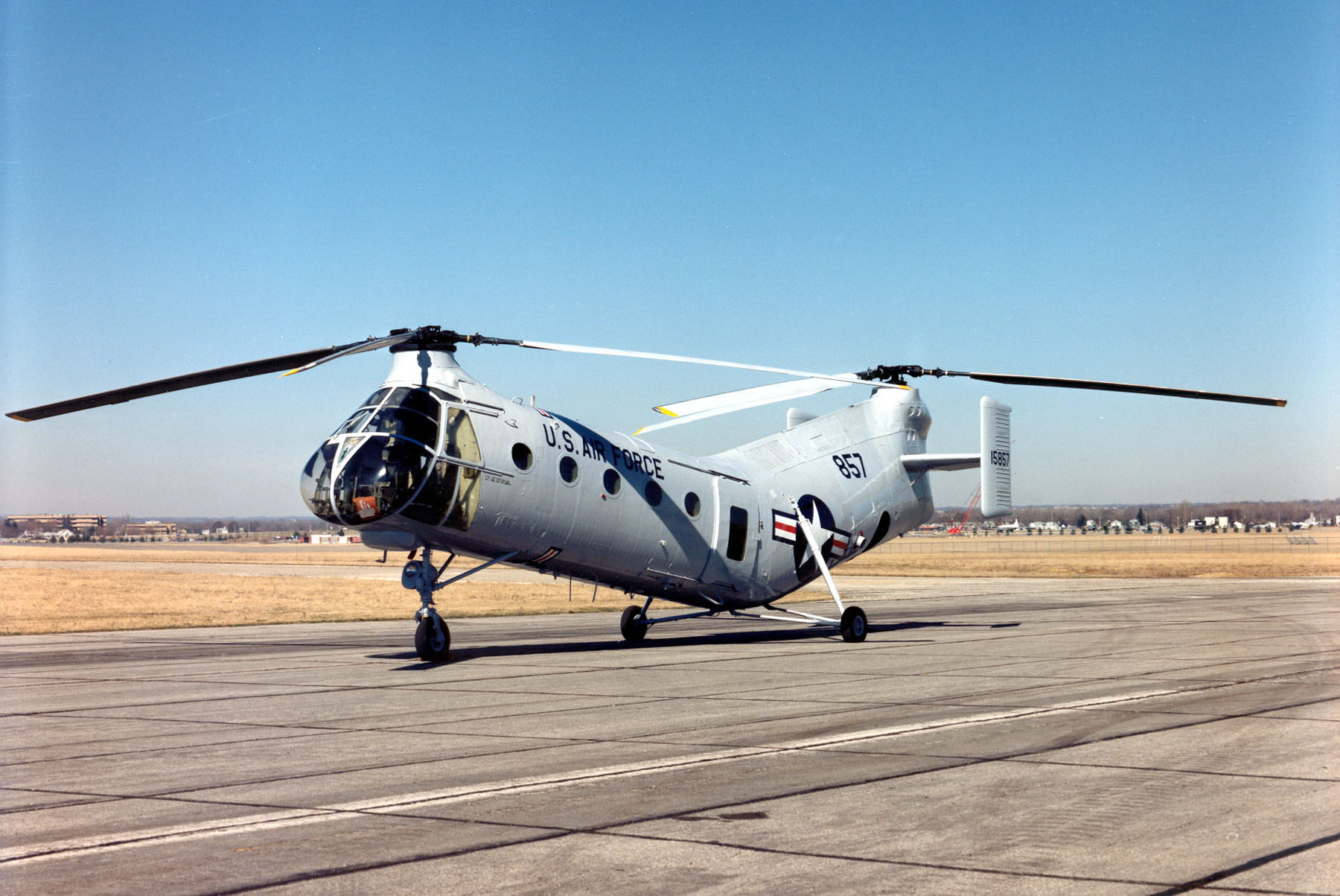 DAYTON, Ohio -- Vertol CH-21B Workhorse at the National Museum of the United States Air Force. (U.S. Air Force photo)